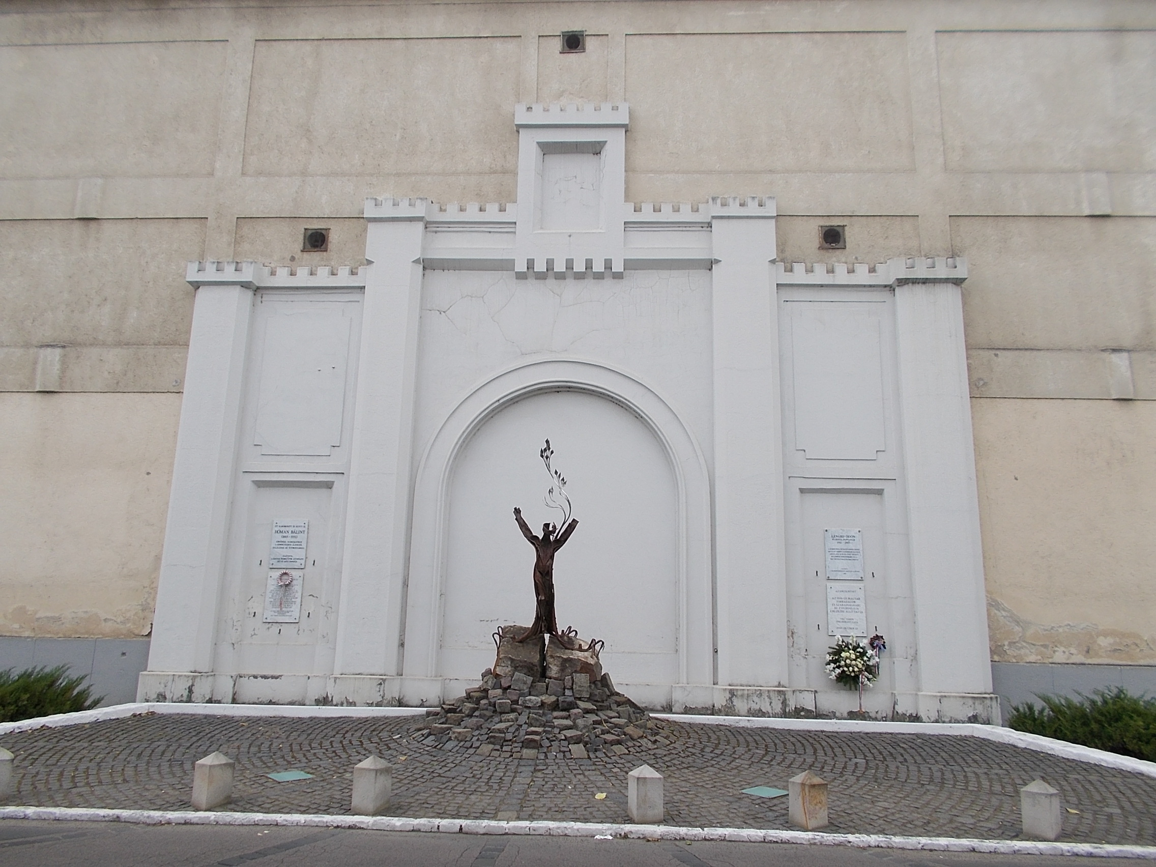 György Seregi's 1956 Hungarian Revolution Monument (2006) outside prison in Köztársaság Street, Vác, Pest County, Hungary